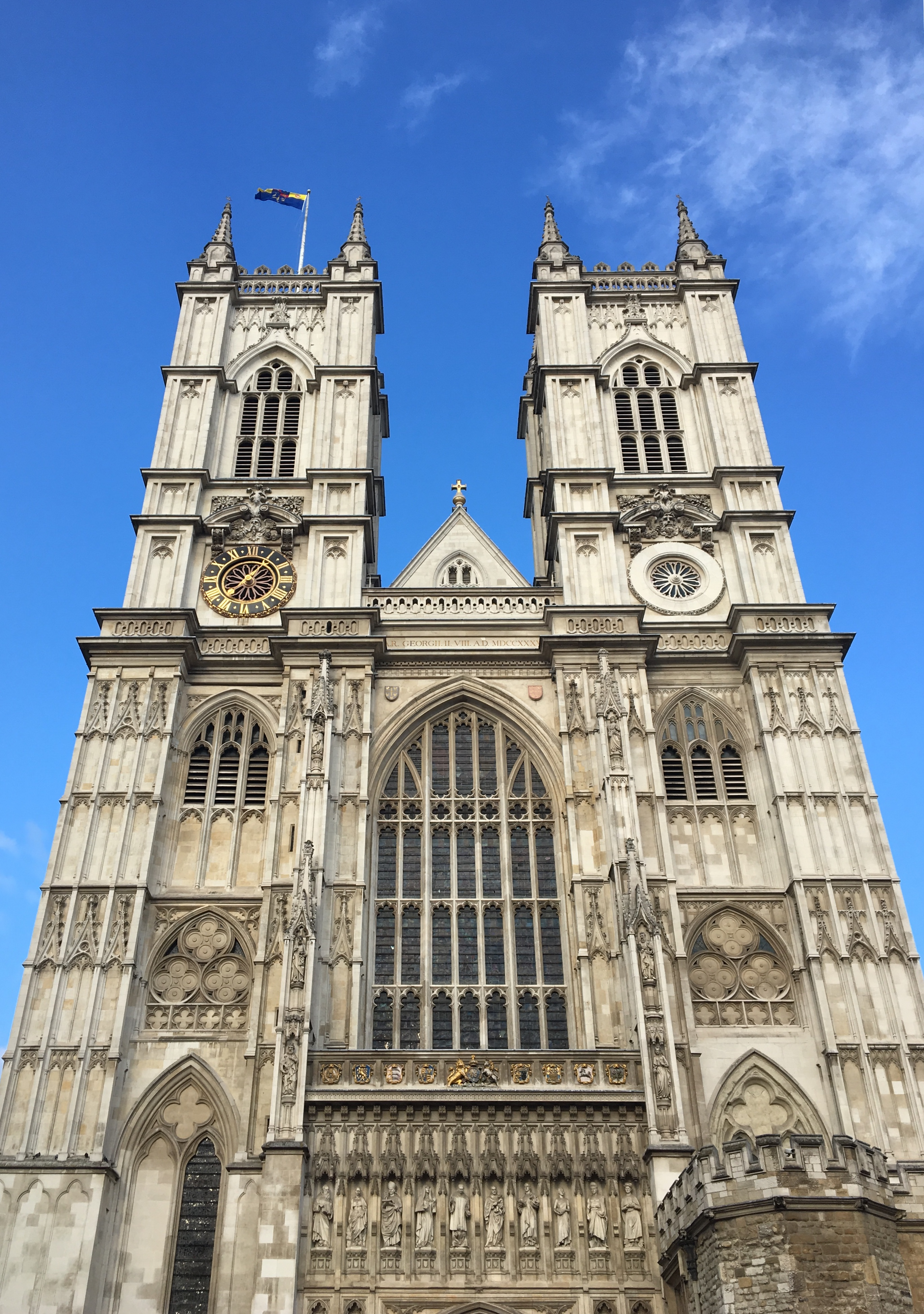 Westminster Abbey's Façade, took on a clear day